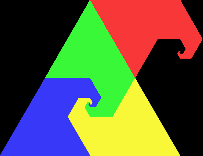 An equilateral triangle with a series of smaller equilateral triangles on one corner